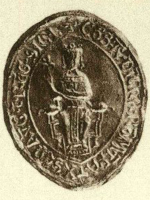 Constance of Sicily